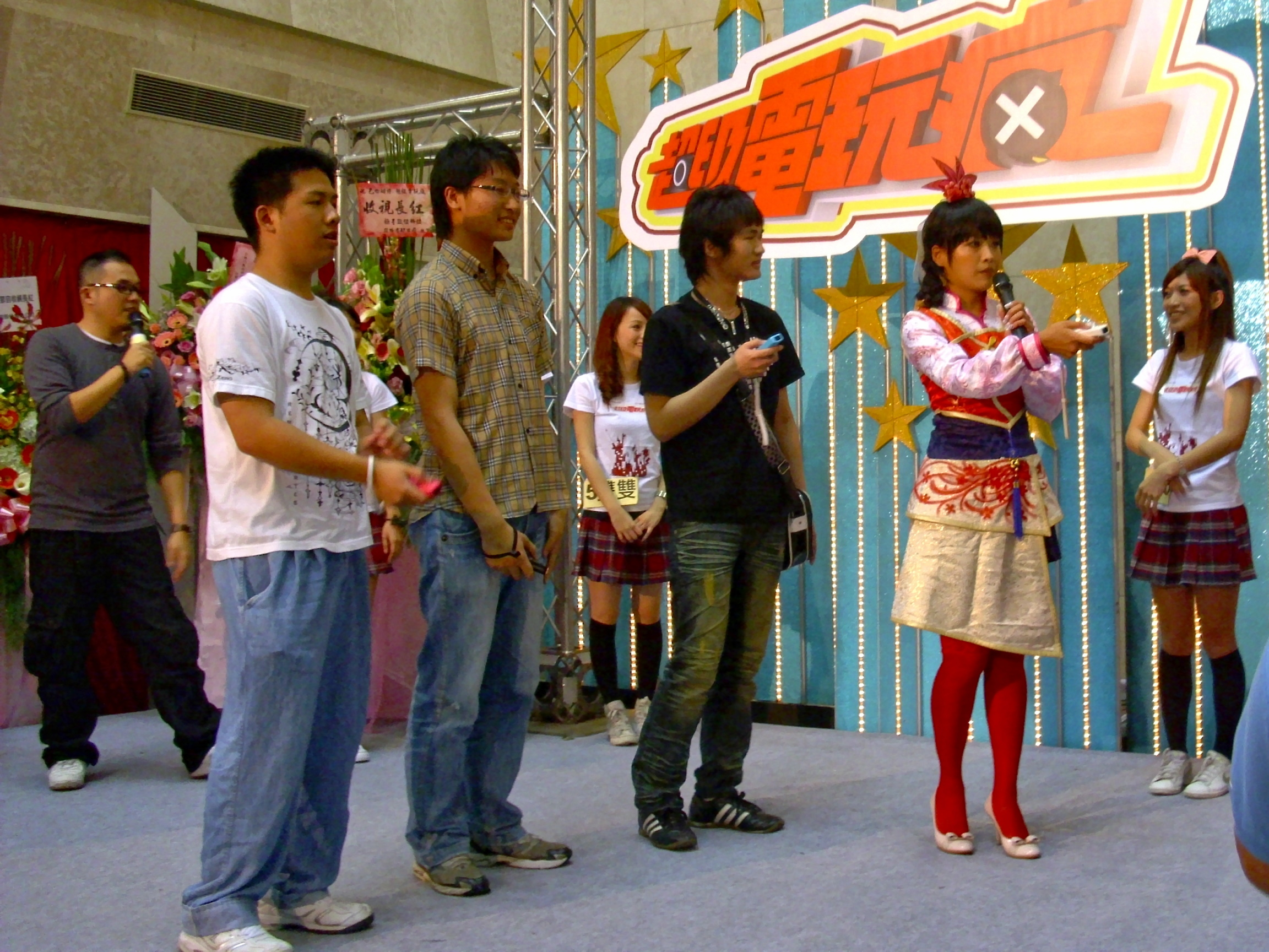 CTS "Super Game Crazy" Press Conference.